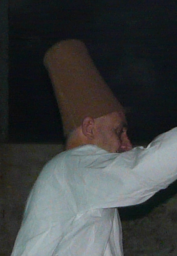 Red Sikke